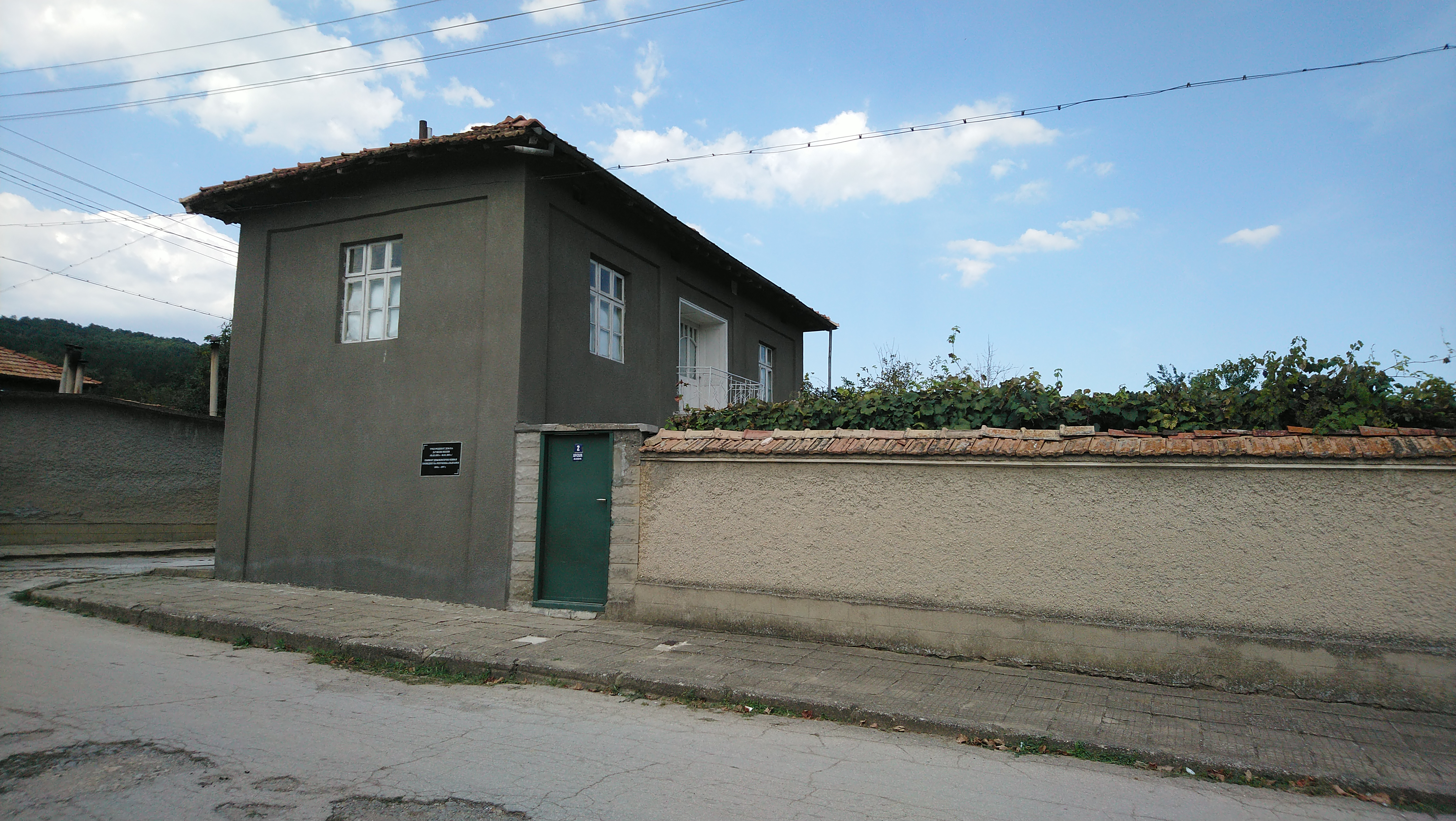 Veselinovo (Shumen Province): the native home of the President Zhelyu Zhelev